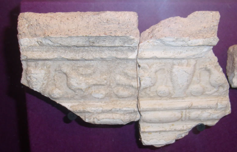 Fragment of stucco moulding from the Roman palace at Fishbourne